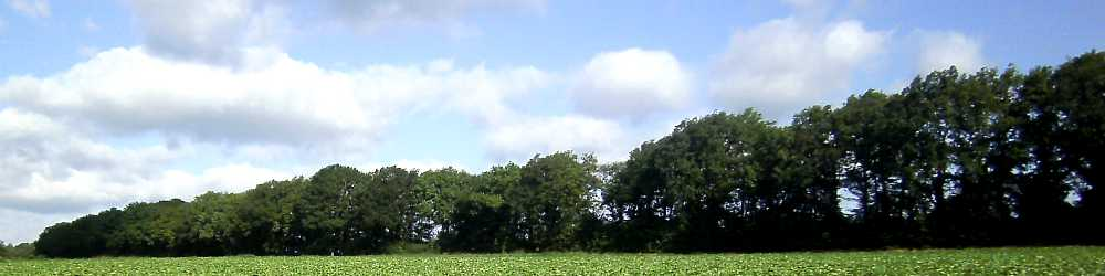 Ancient defensive Wall of Viersen, seen from Großheide, Mönchengladbach, Northrhine-Westfalia, Germany